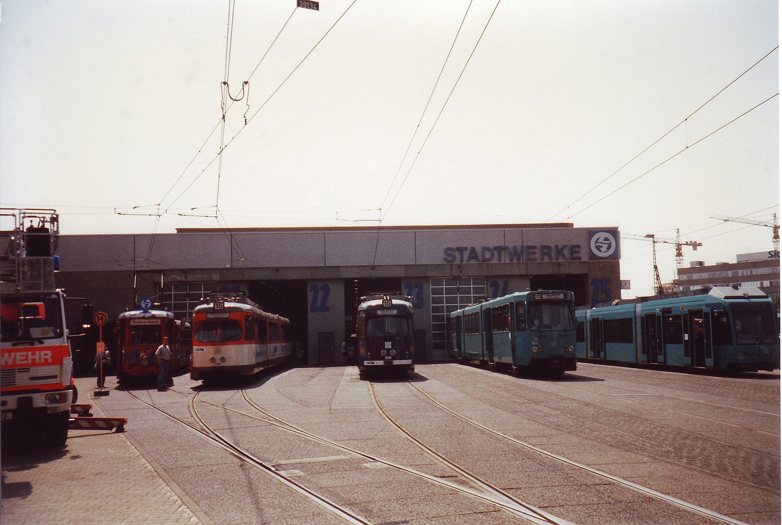 Stadtbahnzentralwerkstatt in Frankfurt-Rödelheim, June 1997